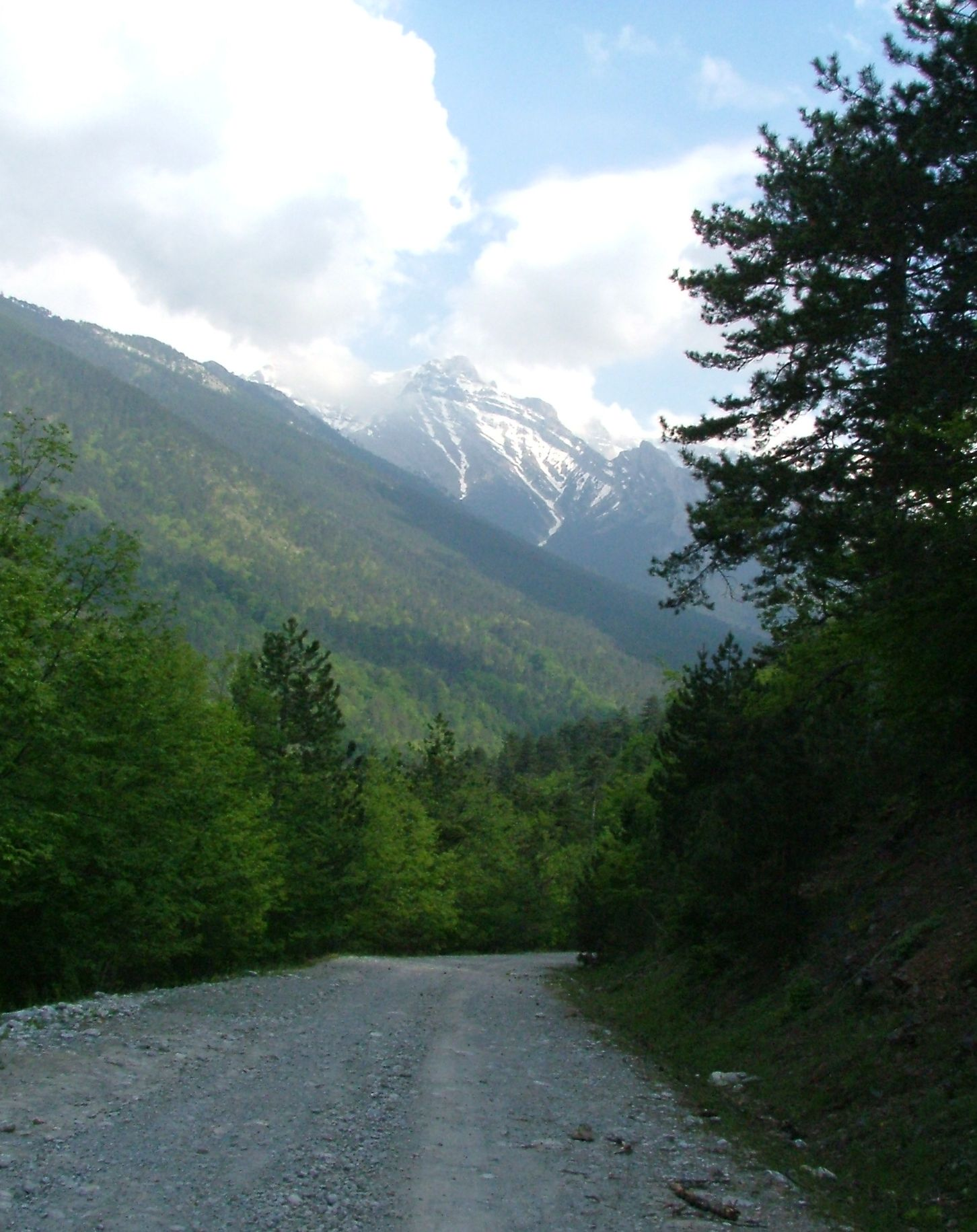 Greece: Mount Olympus